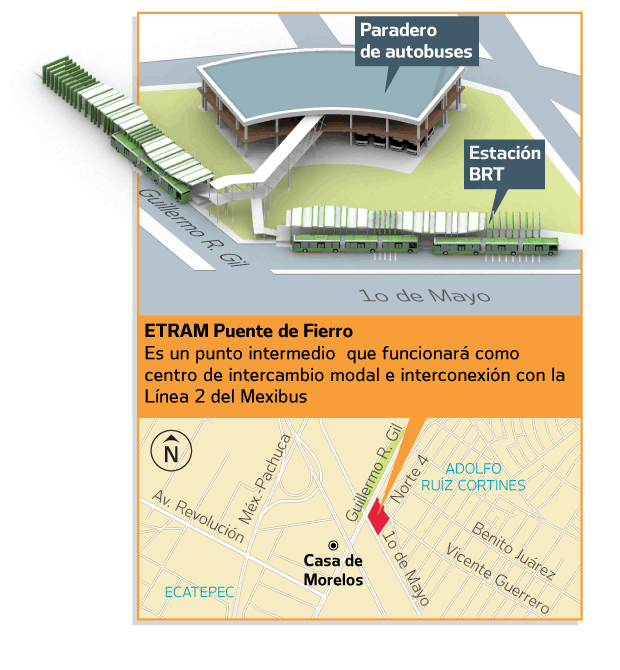 Mexibus L4 2